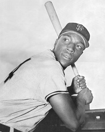 Professional baseball player Willie McCovey